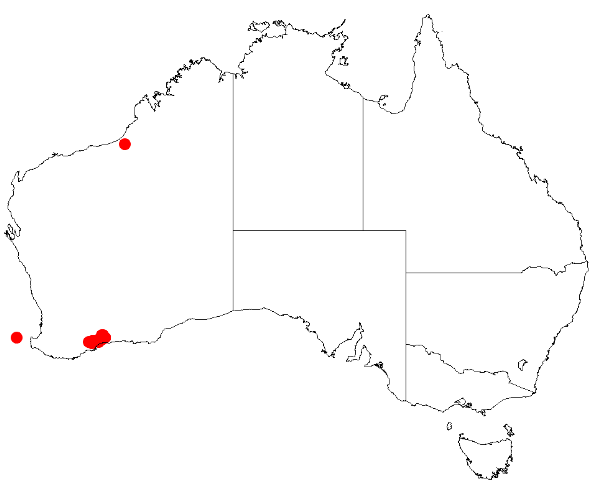 Acacia bifaria Occurrence data from Australasia Virtual Herbarium downloaded from on 8 December 2018